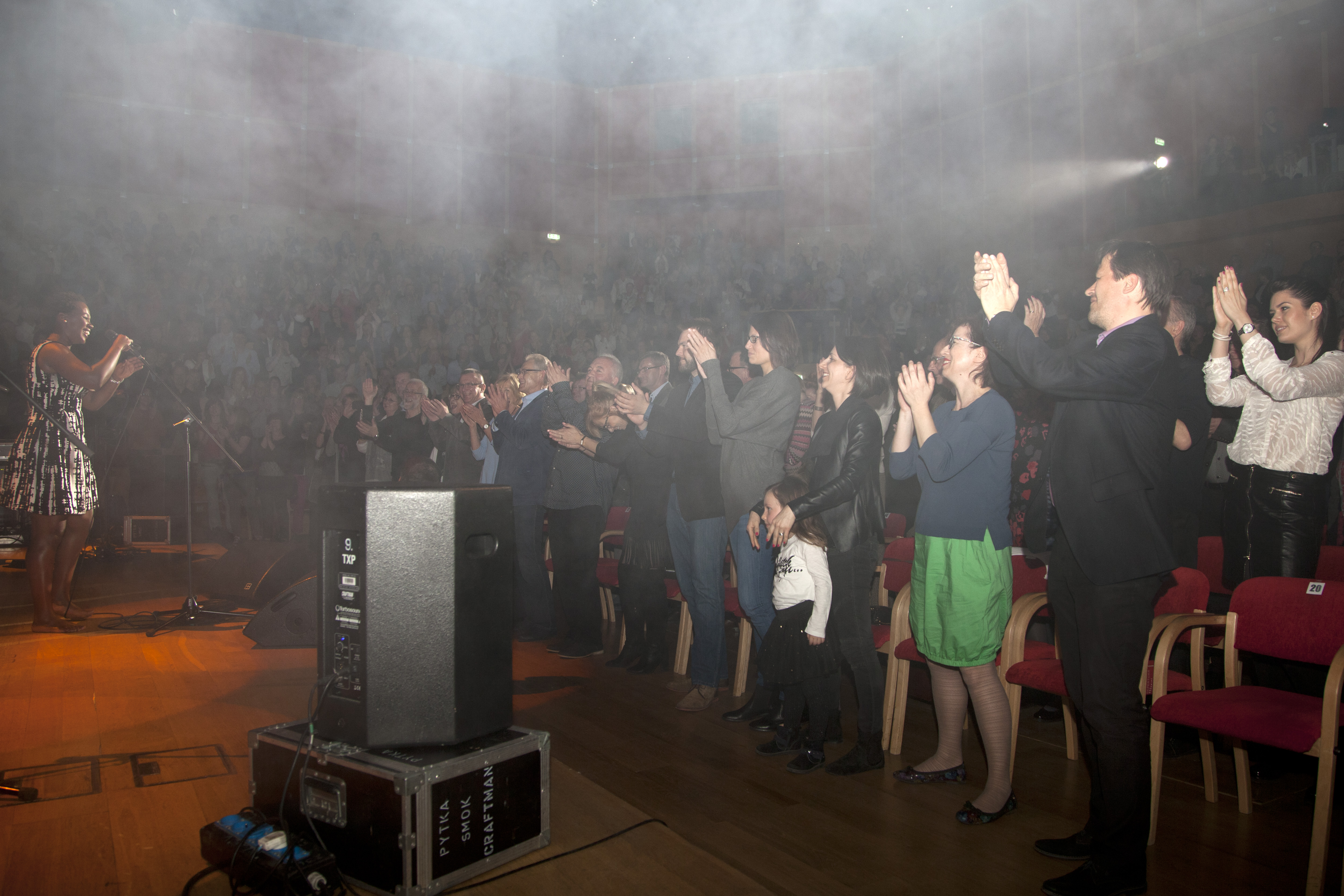 Elida Almeida, Siesta Festival Gdansk.